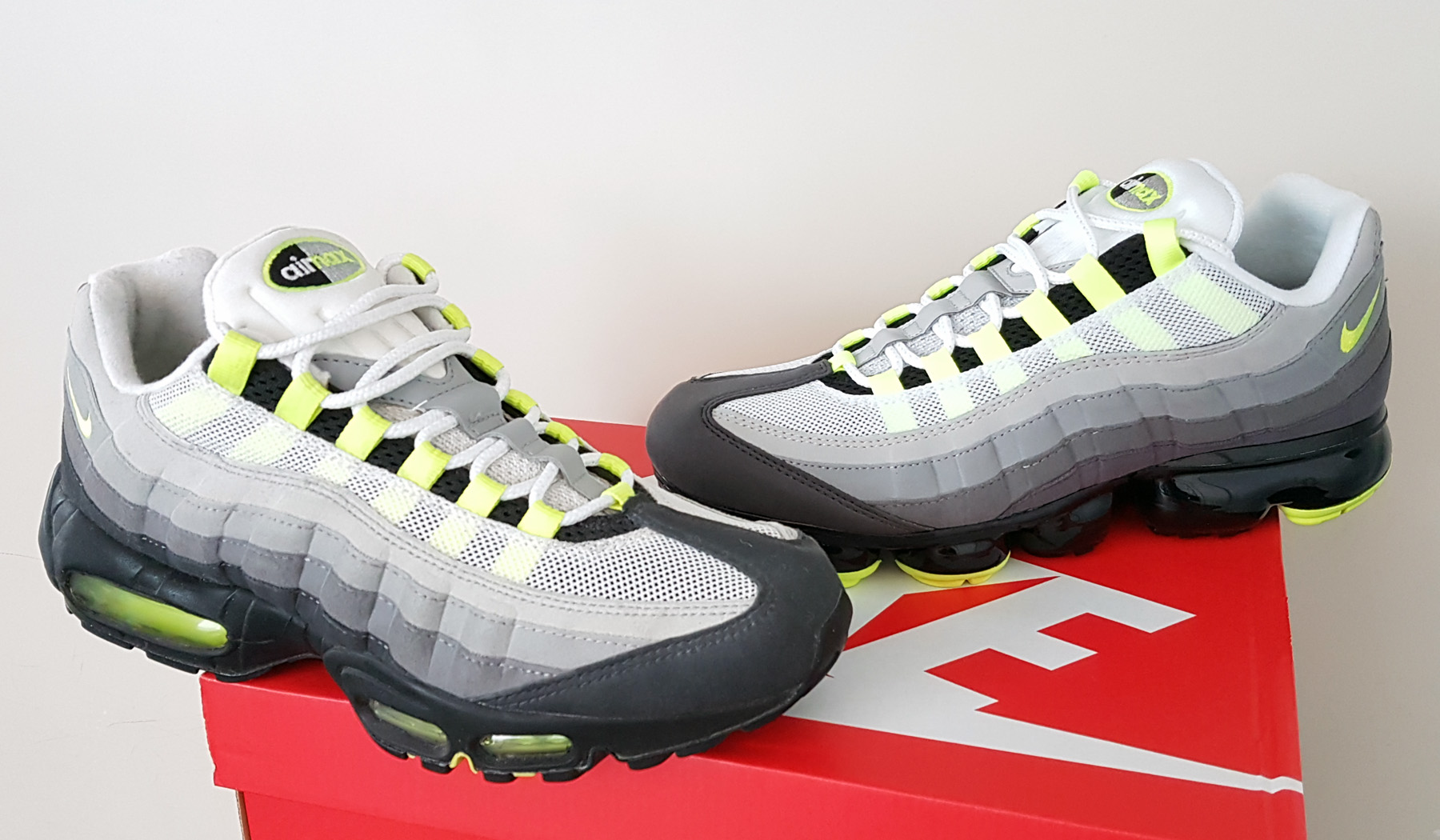 Photo of the Nike Air Max 95 (1995) and the Nike Vapormax 95 (2018) in the original Volt colorway.